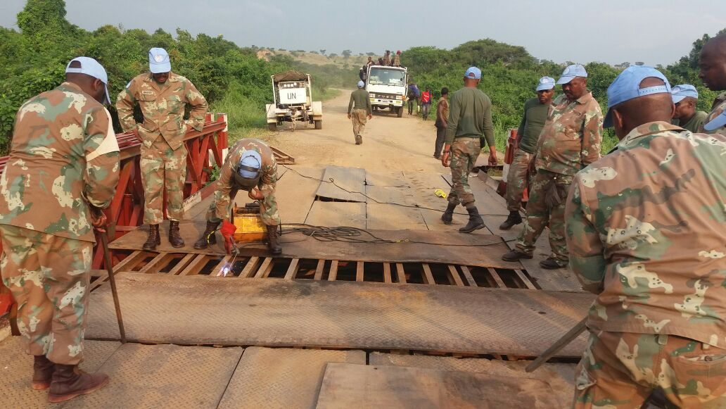 Rwindi, North Kivu Province, DR Congo: The MONUSCO Force’s South African Engineer Company troops have rehabilitated the Baily Bridge in Rwindi, connecting Rutshuru to Kanyambayonga. The bridge is very vital access to link Goma in order to support the local population in the area and also enhance the movement of MONUSCO's assets. Photo MONUSCO/Force